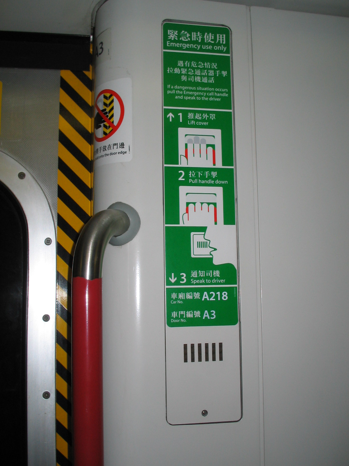 Emergency driver communications of the M Stock, MTR.